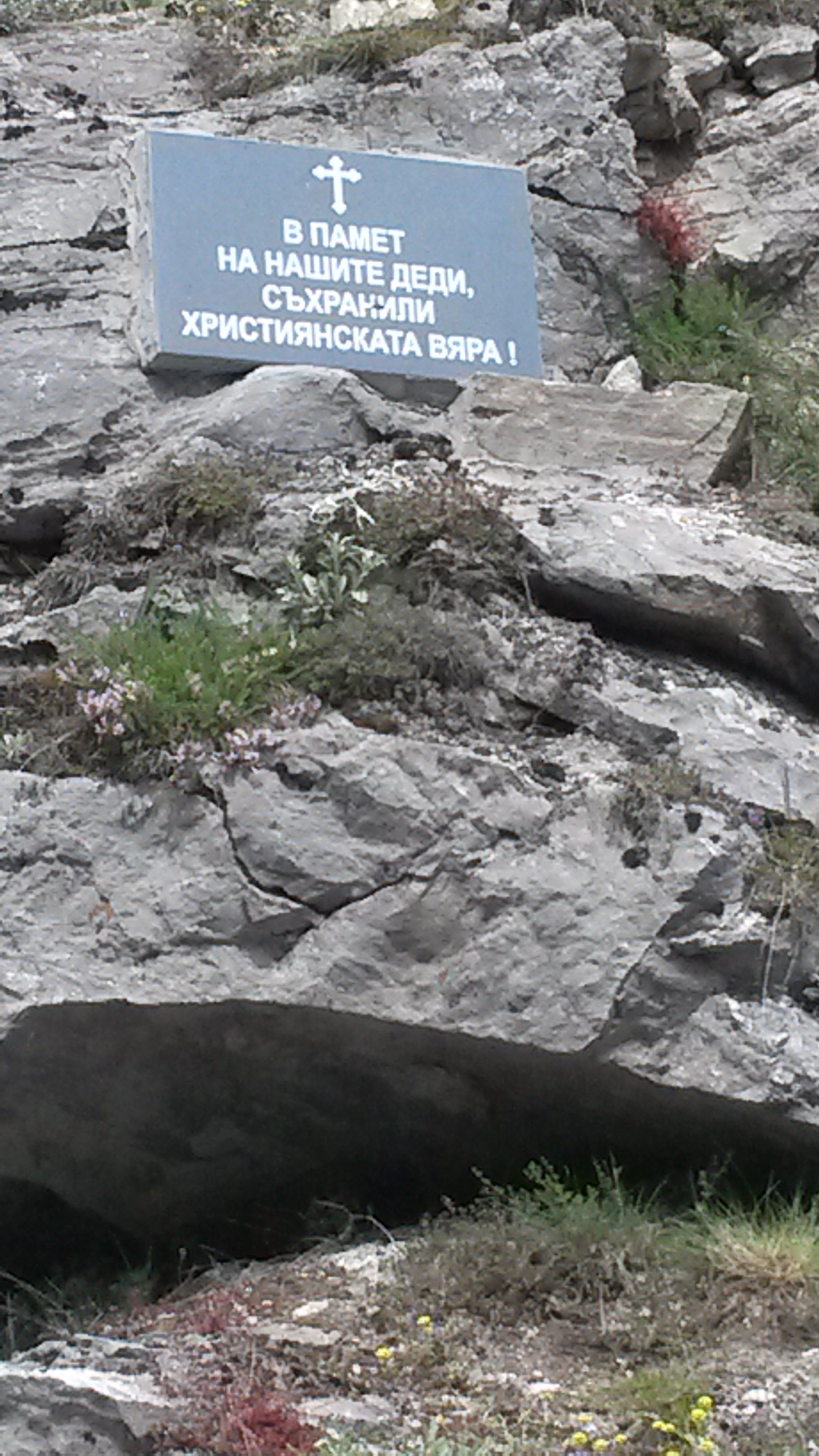 Children martirs Zabardo